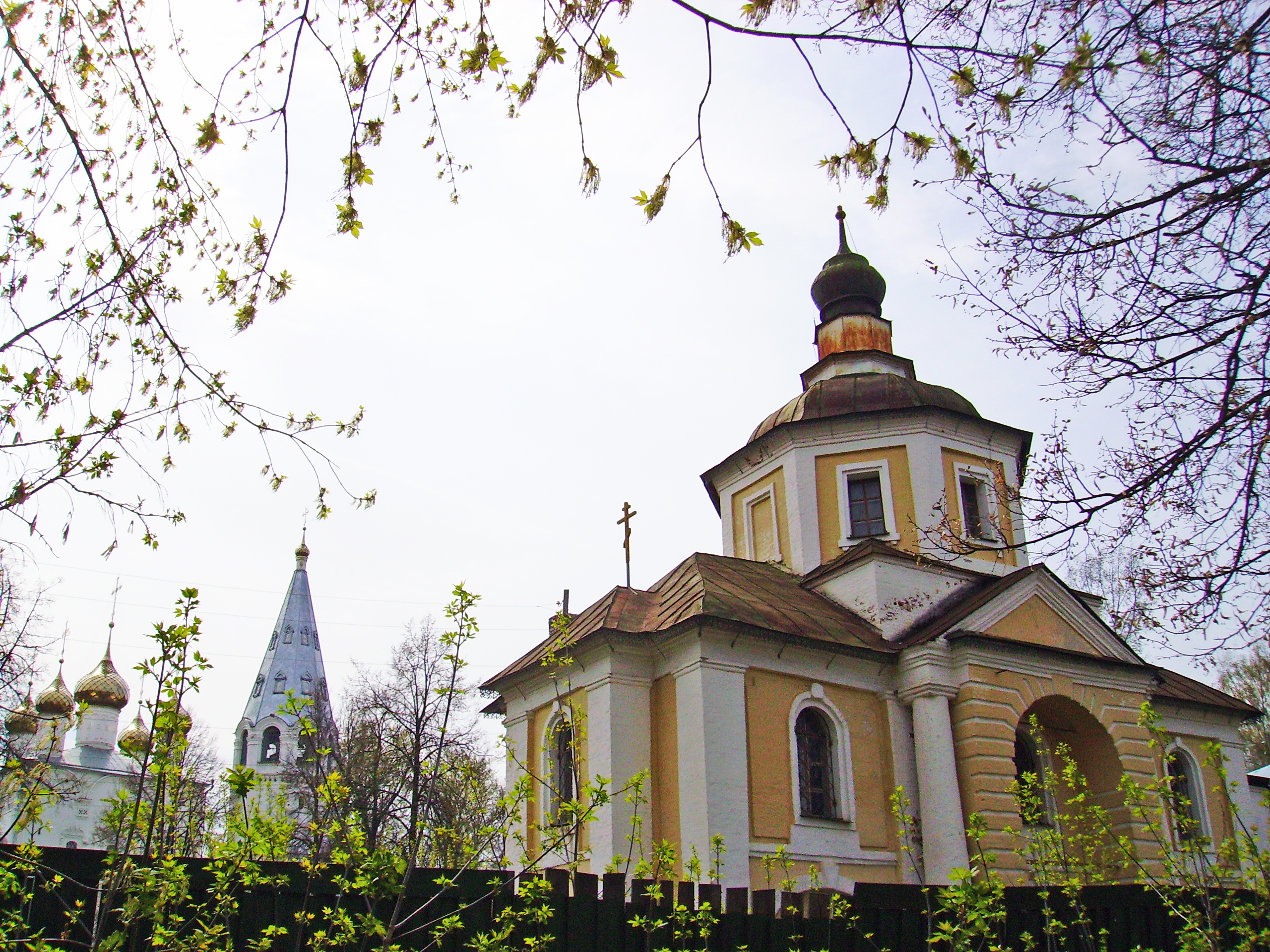 Temples of Blagoveshchensky Monastery